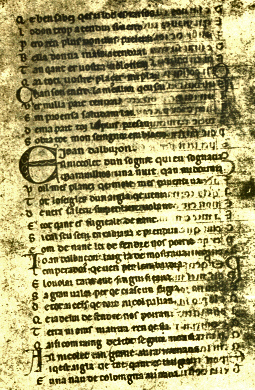 A tenso between Nicoletto da Torino and Joan d'Albusson from troubadour MS "U".